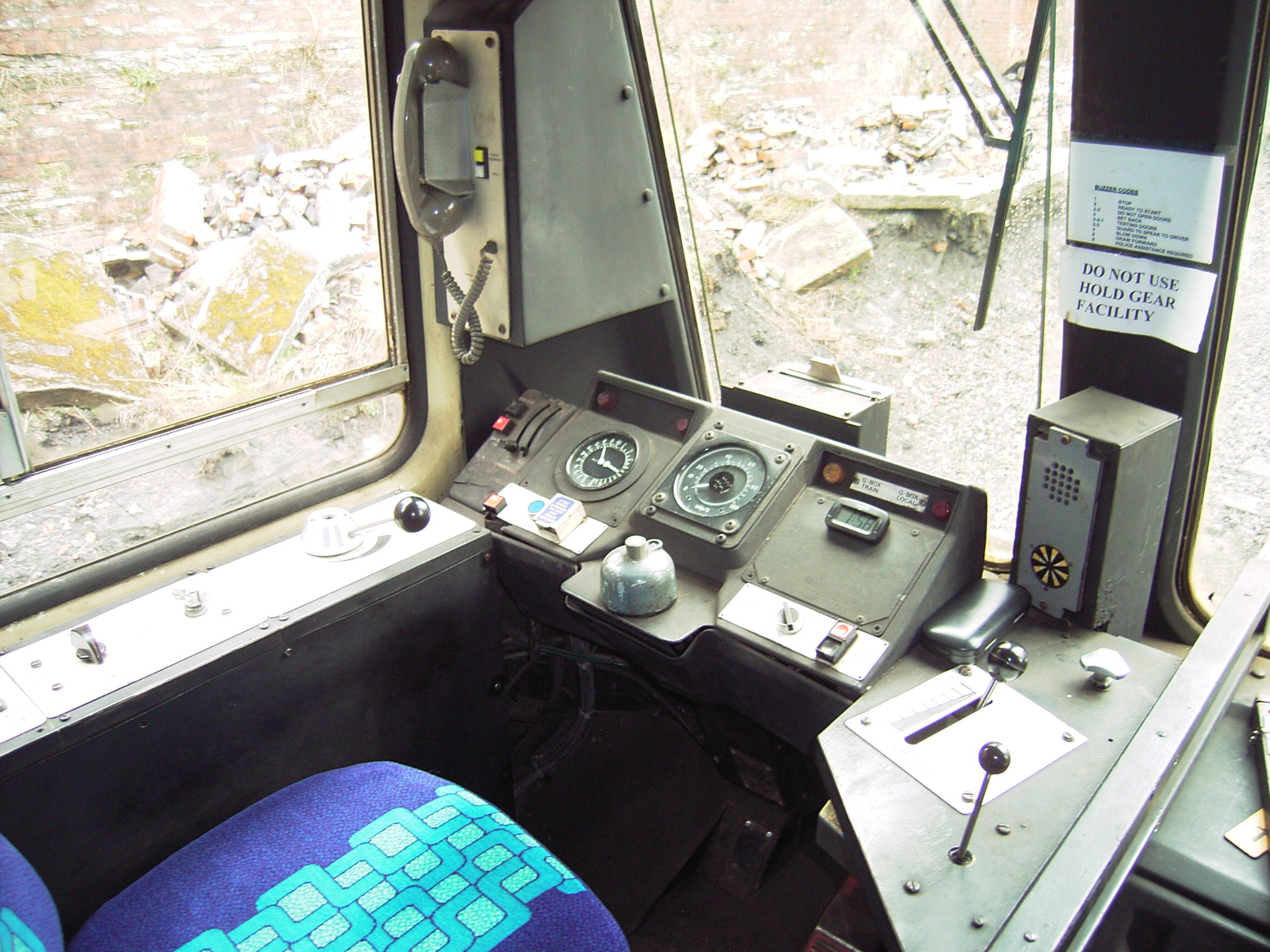 Class 141 (141103) drivers cab